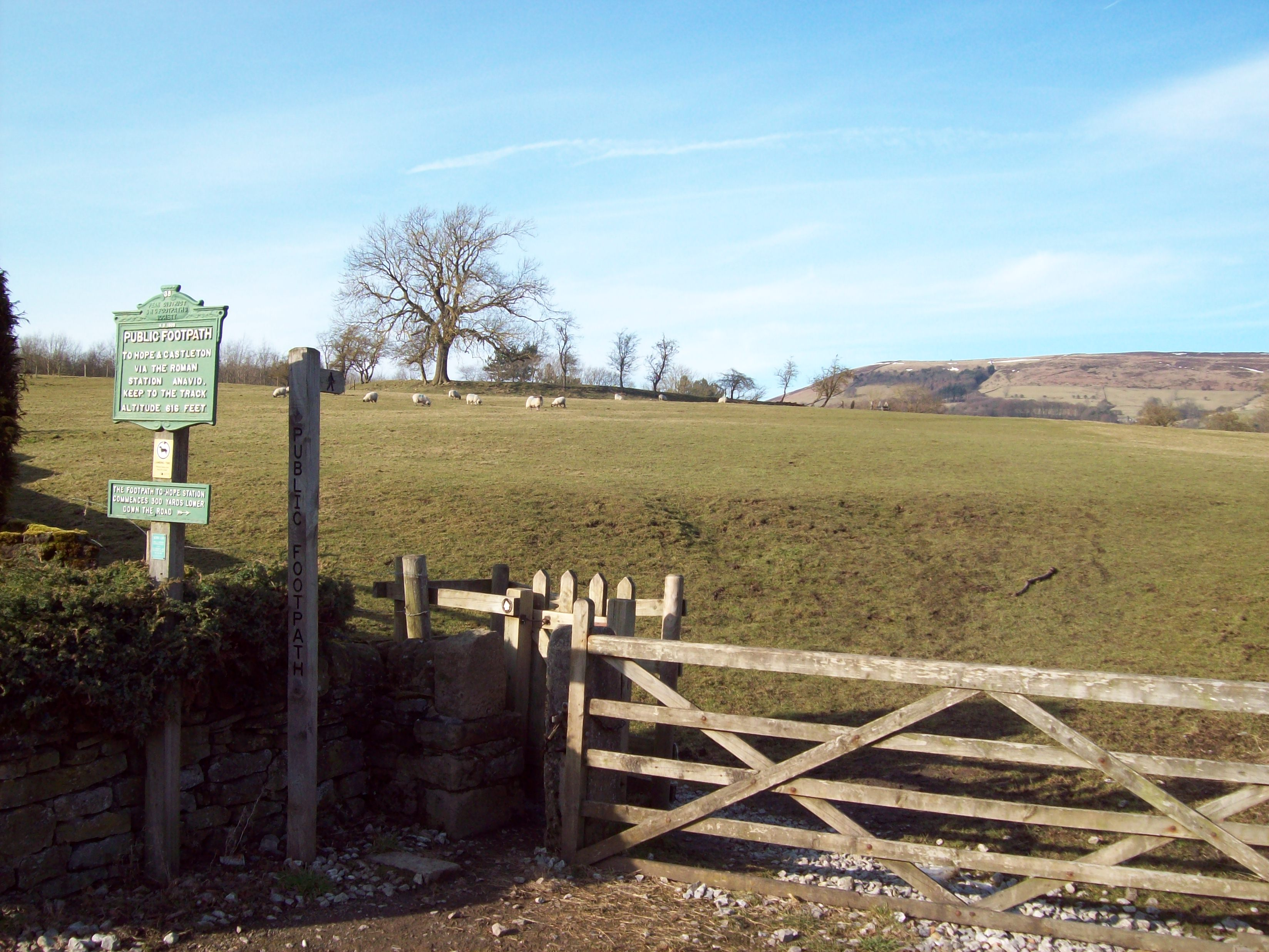 Footpath adjoining Batham Gate Public footpath which passes over the site of 'Navio' - a Roman Fort. The raised earthwork of the fort is visible on the near horizon behind the sheep. The photo was taken from Batham Gate which was itself an old Roman Road but is now the B6049.